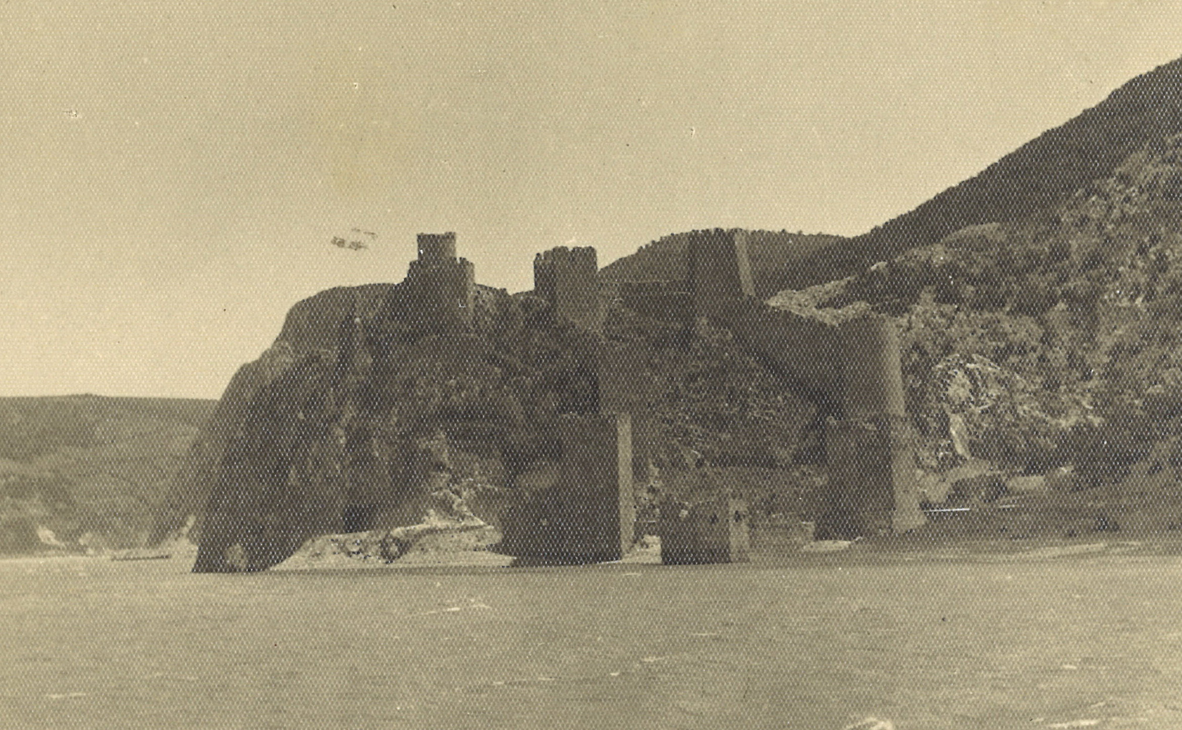 Golubac.